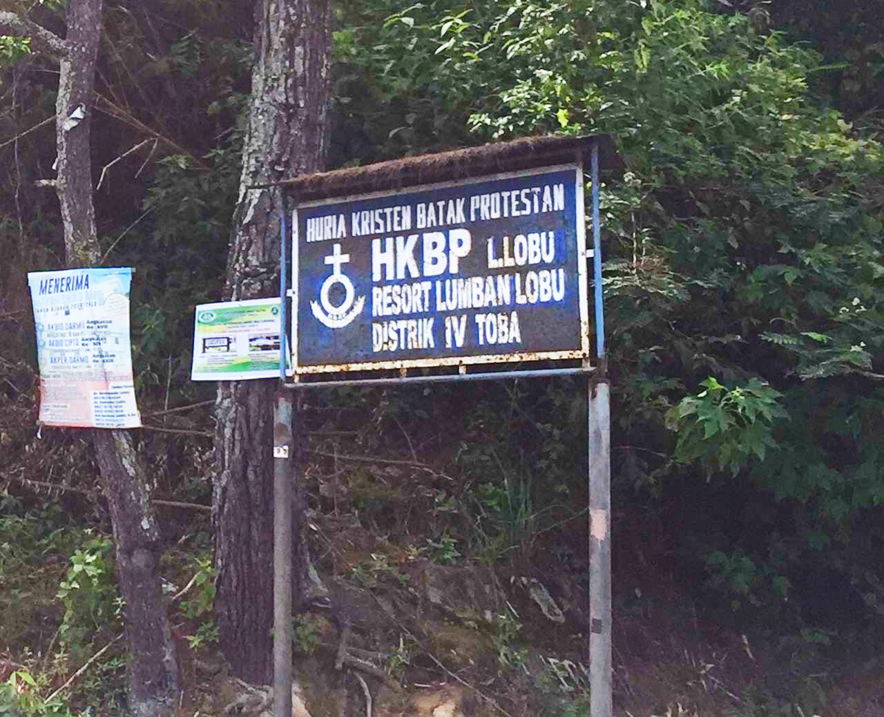 HKBP Lumban Lobu, Res. Lumban Lobu church in Lumban Lobu, Bonatua Lunasi, Toba Samosir